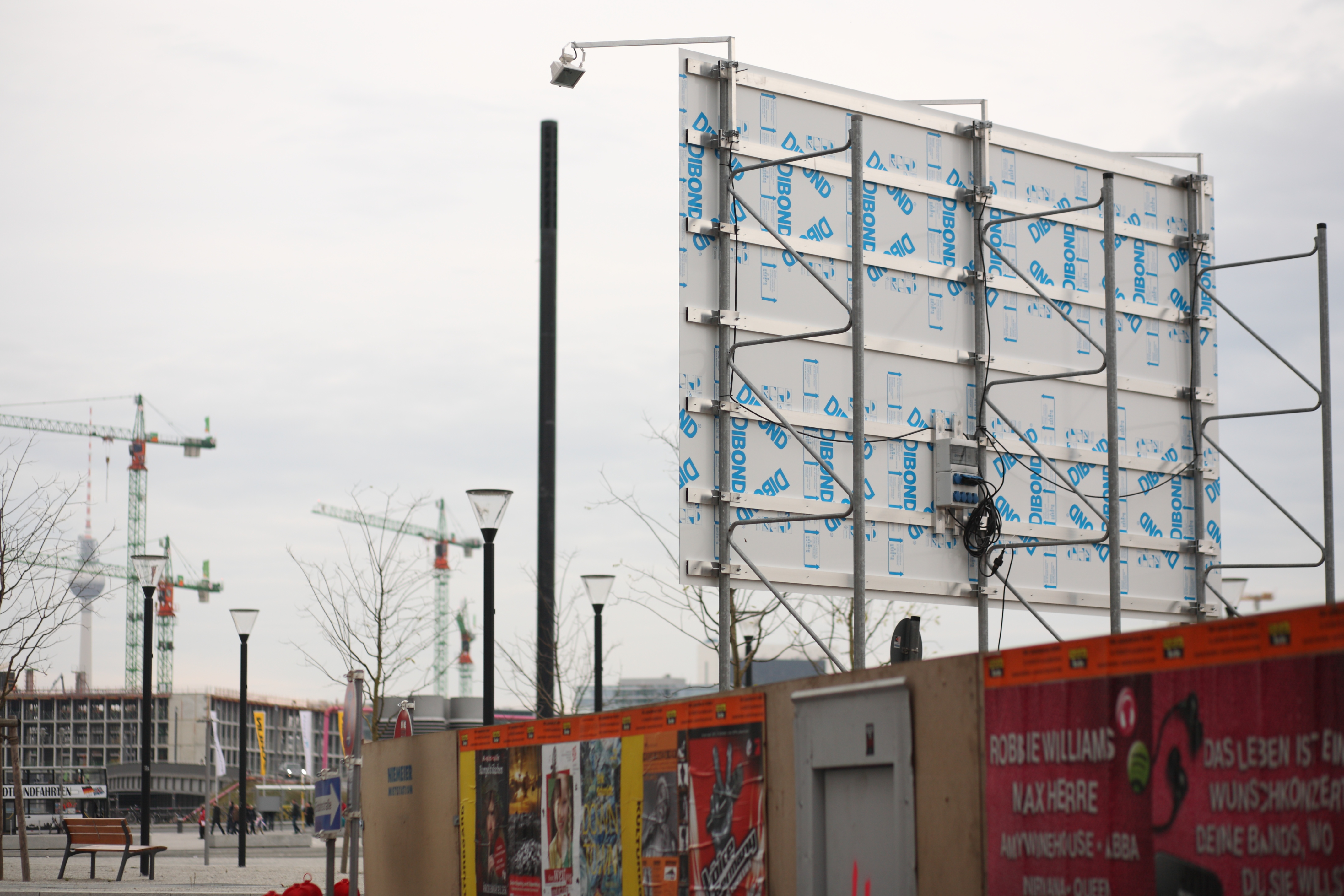 Dibond construction site panel located at the excavation pit of the future hotel "Steigenberger am Kanzleramt" next to Berlin central and Lehrter train station